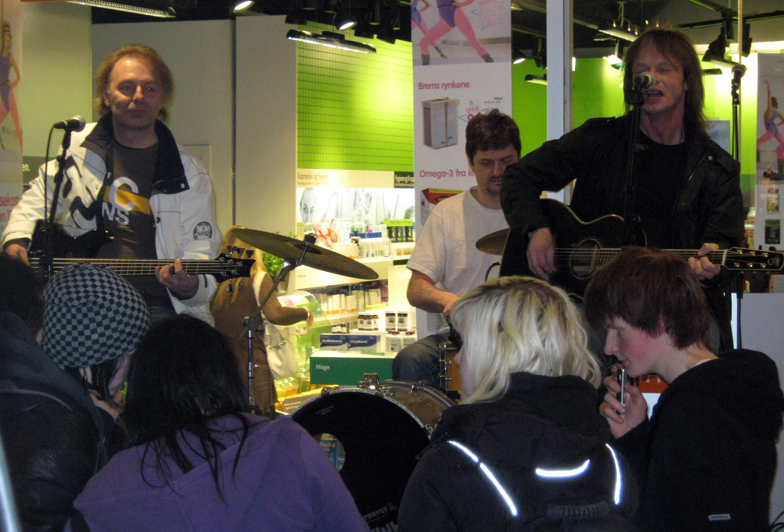 Stage Dolls performing in Arendal at album Always signing tour.